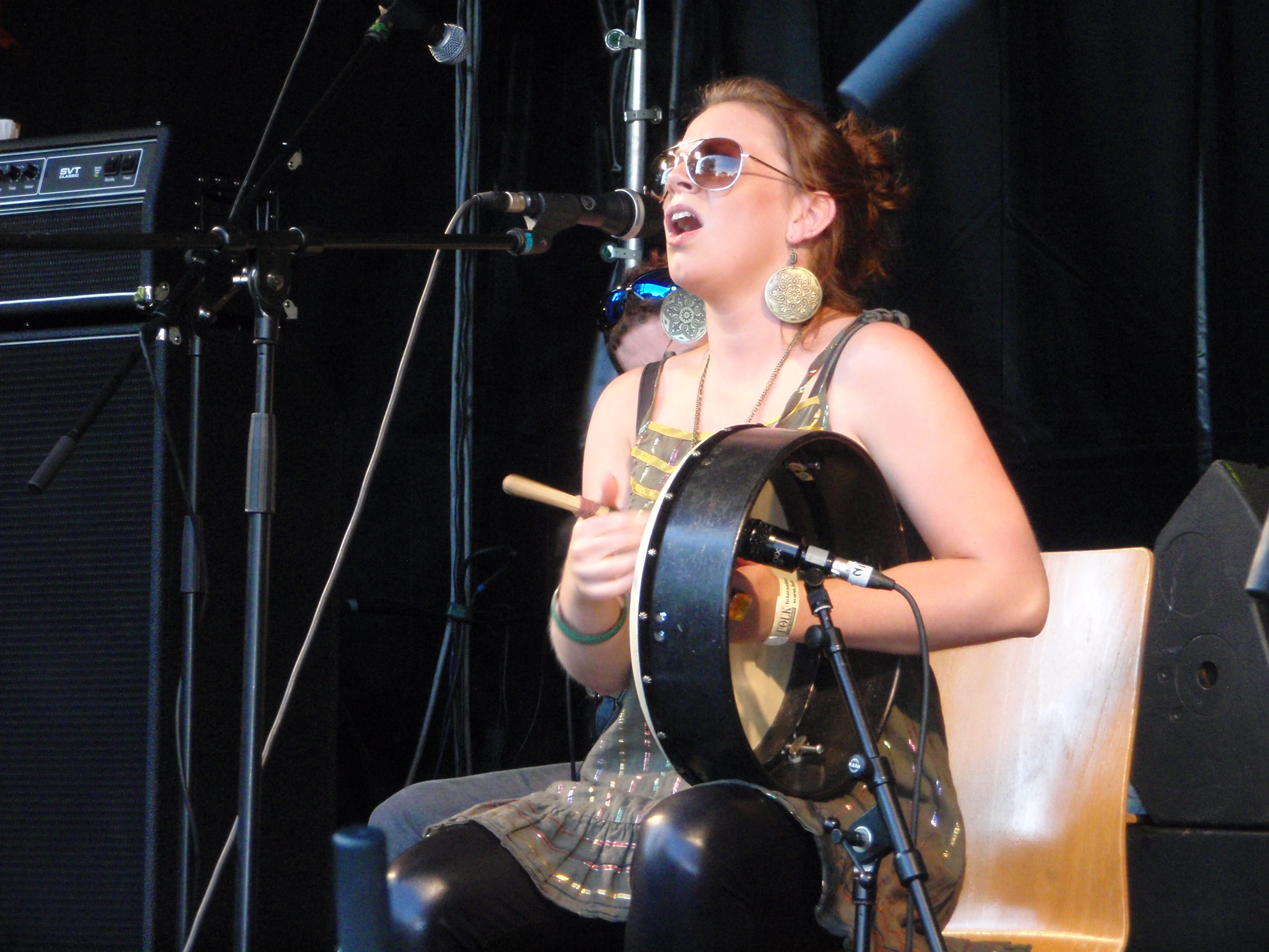 Nicola Joyce (Gráda) playing bodhrán, appearance at the "Folk im Schlosshof" festival in Bonfeld / Germany 2009